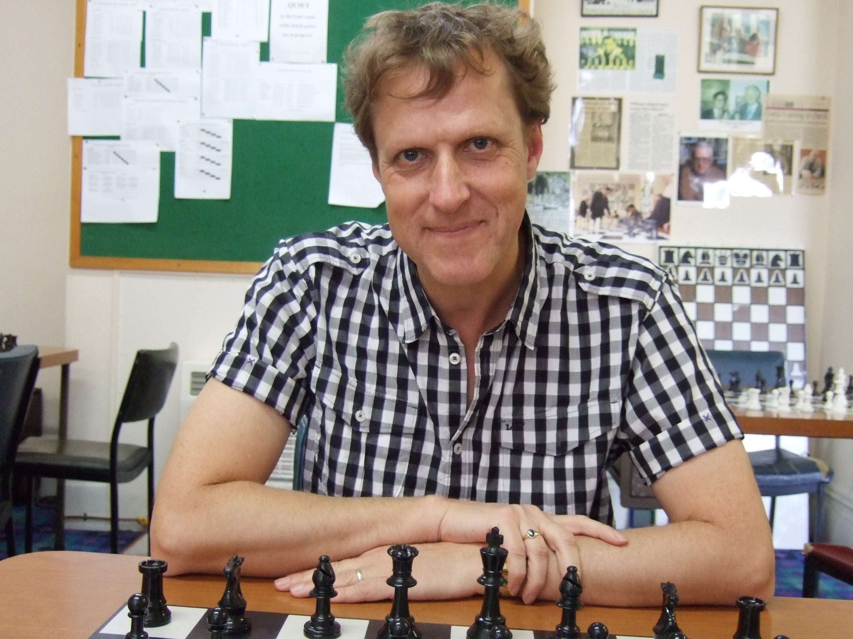 British/Australian Chess Master Gary Lane. Take in Oct 2012